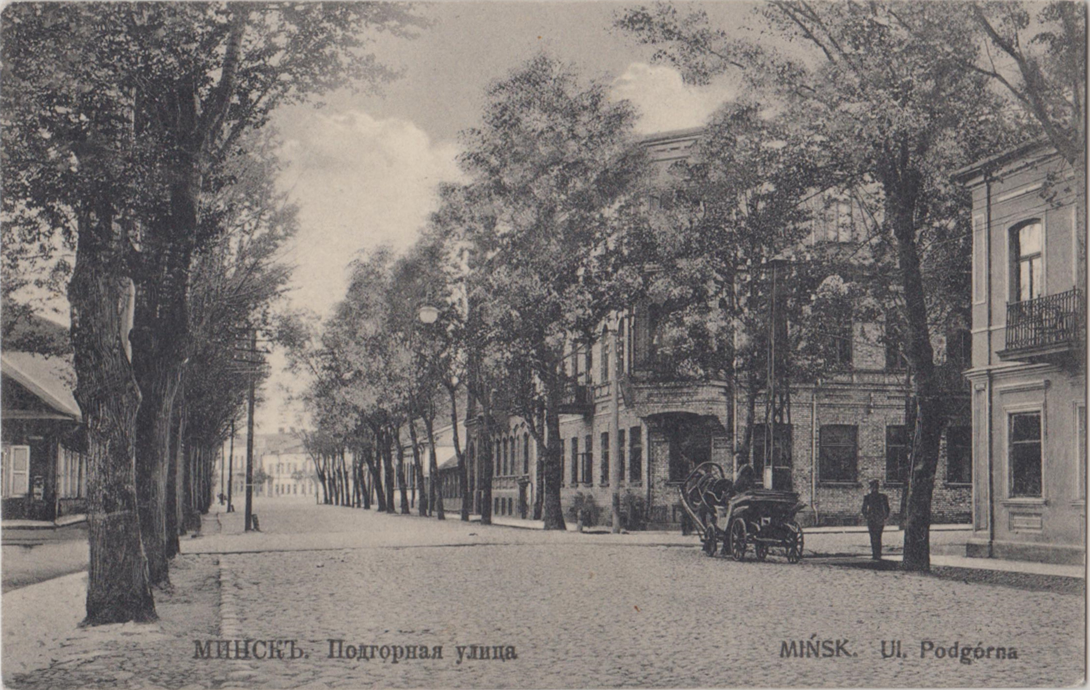 Padhornaja Street in Miensk